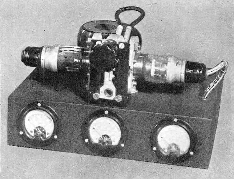 Microwave oscillator using a klystron tube, in 1944. The klystron invented in 1937 by the Varian brothers, is a microwave amplifying tube in which a radio wave is amplified by absorbing kinetic energy from a beam of electrons. It was widely used in radar sets during WW2 and today is used in microwave radio links and particle accelerators. The electron bean is generated by an eletron gun at the right end of the tube and is attracted to a high voltage "collector" electrode at the left end. In the center it passes through two cavity resonators. The first has a standing wave of radio waves in it. This velocity modulates (alternately accelerates and retards) the electrons, so they form into "bunches". In the second cavity the bunches of electrons induce a standing wave of radio waves. This is because the oscillating electric field in the cavity has the proper phase that when each bunch enters, the polarity of the electric potential opposes the electrons, decelerating them. Thus the kinetic energy of the electrons is transferred to the electric field, amplifying it. In the oscillator the two cavities are connected by a short length of coaxial cable (center), feeding back energy from the second cavity into the first. The positive feedback causes spontaneous microwave oscillations to be generated. The microwaves can be drawn off through a second coaxial cable and used. Behind the klystron is a centrifugal cooling fan.